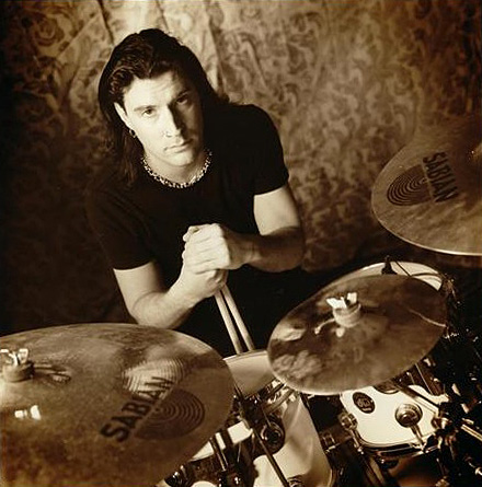 Sean Kinney, American rock drummer